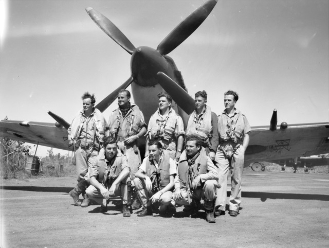 A group portrait of Supermarine Spitfire pilots of No. 549 Squadron RAF which formed part of No. 1 Fighter Wing RAAF. At the time the squadron was based near Darwin.